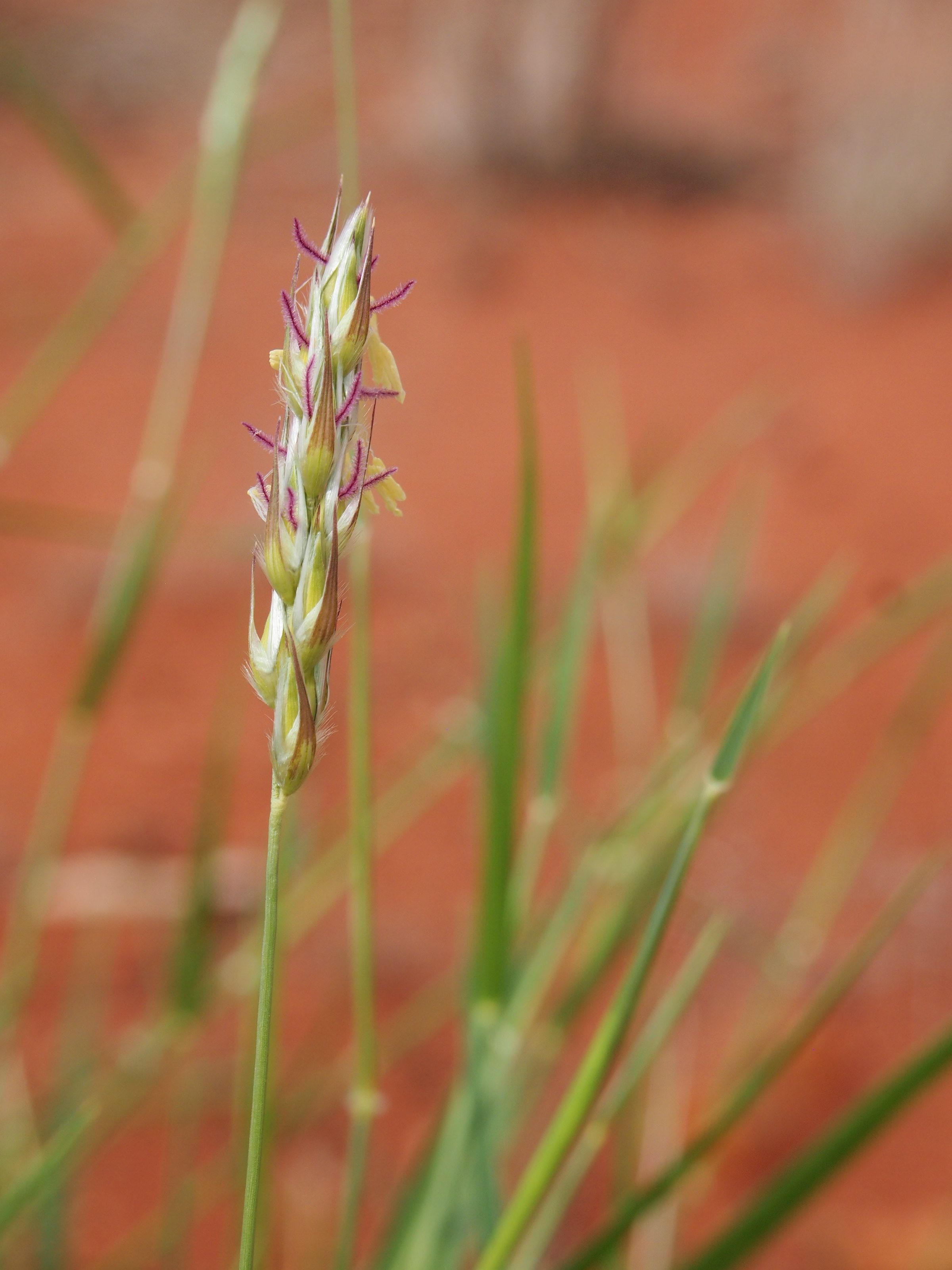 Paraneurachne muelleri flowers